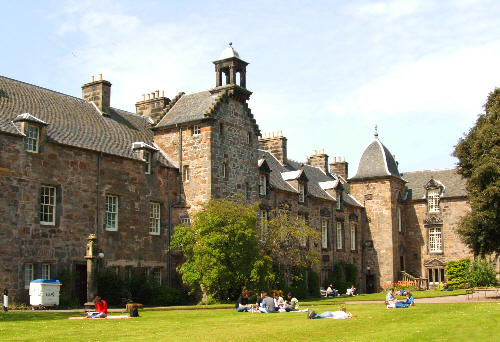 St Mary's College. Part of the University